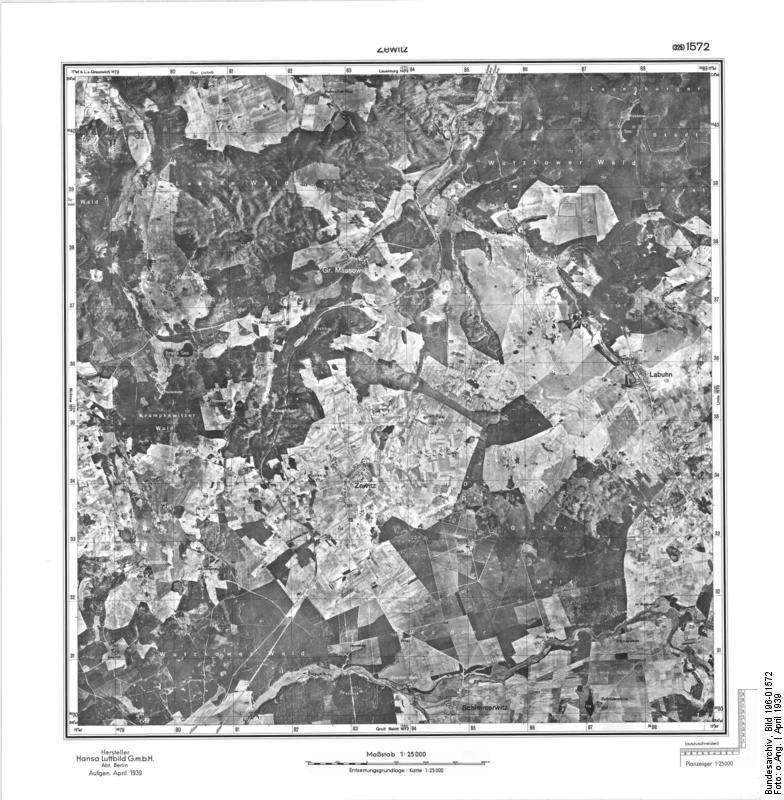 Cewice